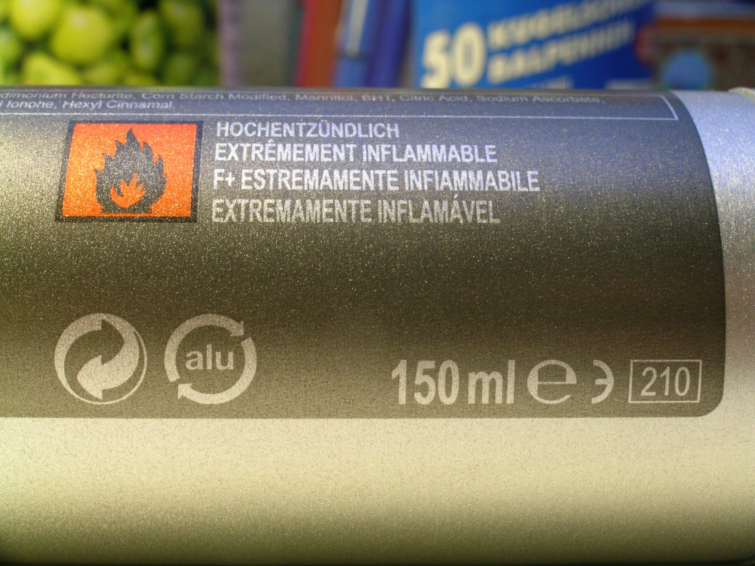 Product information on a can of antiperspirant, with "highly flammable" hazard symbol, green dot, aluminium recycling symbol and quantity information, estimated sign, volume